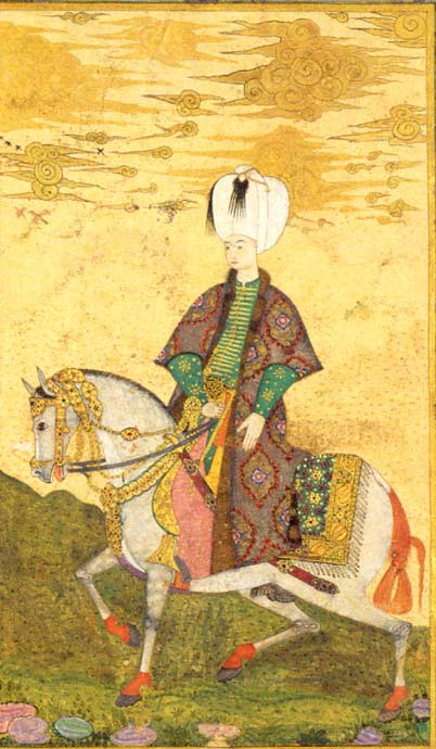 Sultan Osman II riding on horseback. Miniature located at Topkapı Sarayı Müzesi, Istanbul (Inv. H 2169, Fol 13a).